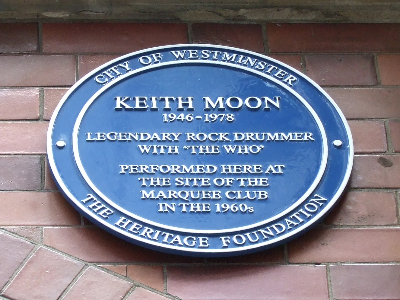 Keith Moon (The Who drummer) 's blue plaque. London Wardour Street W1 Soho